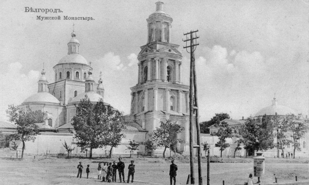 Male Monastery in Belgorod, 1911 photo Flickr data on 2011-08-13 Tags: Monastery, Belgorod, Public Domain License: CC BY-SA 2.0 User: paukrus Ruslan